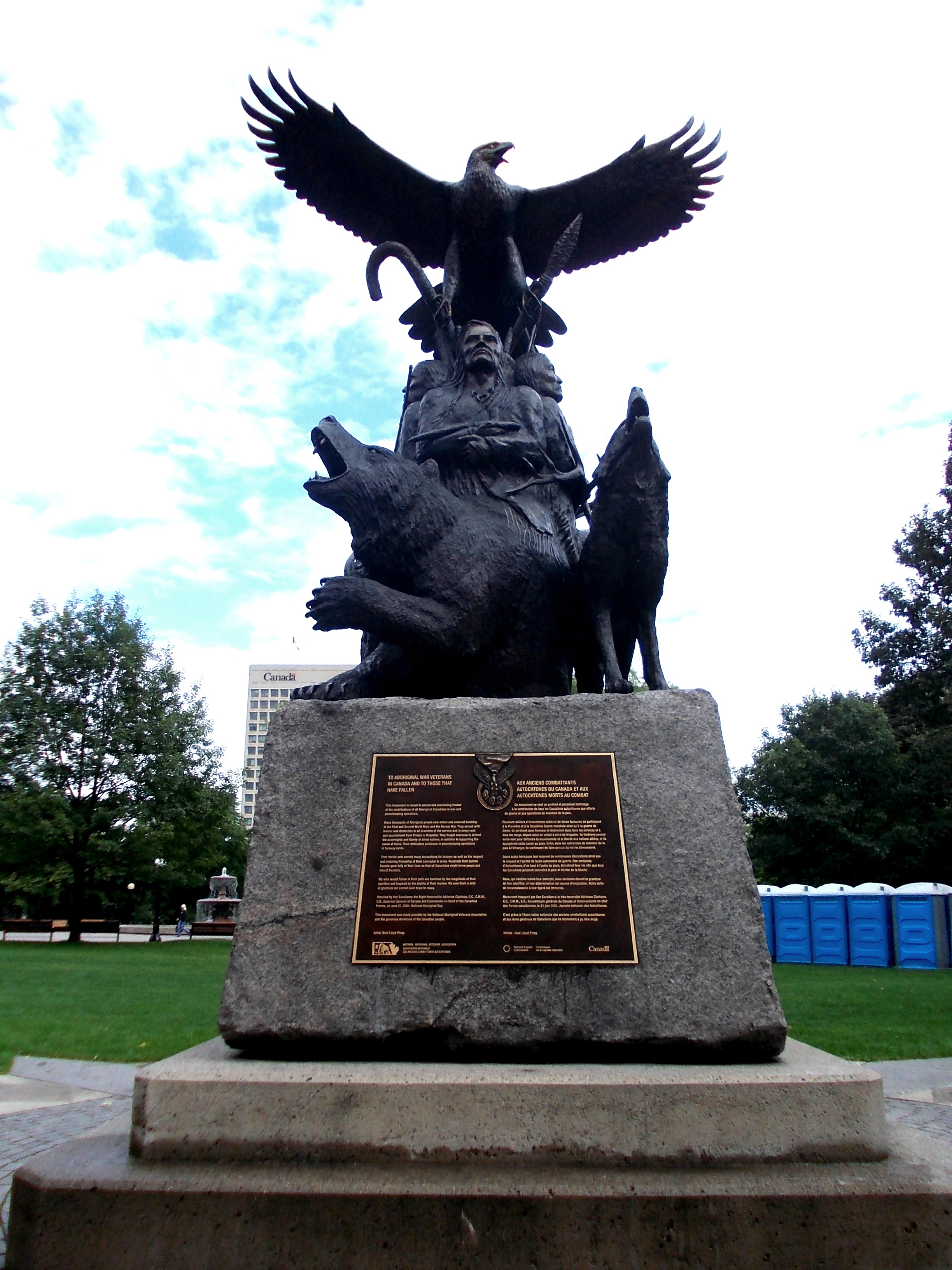 Memorial to Aboriginal war veterans in Canada, located in Ottawa, Ontario.